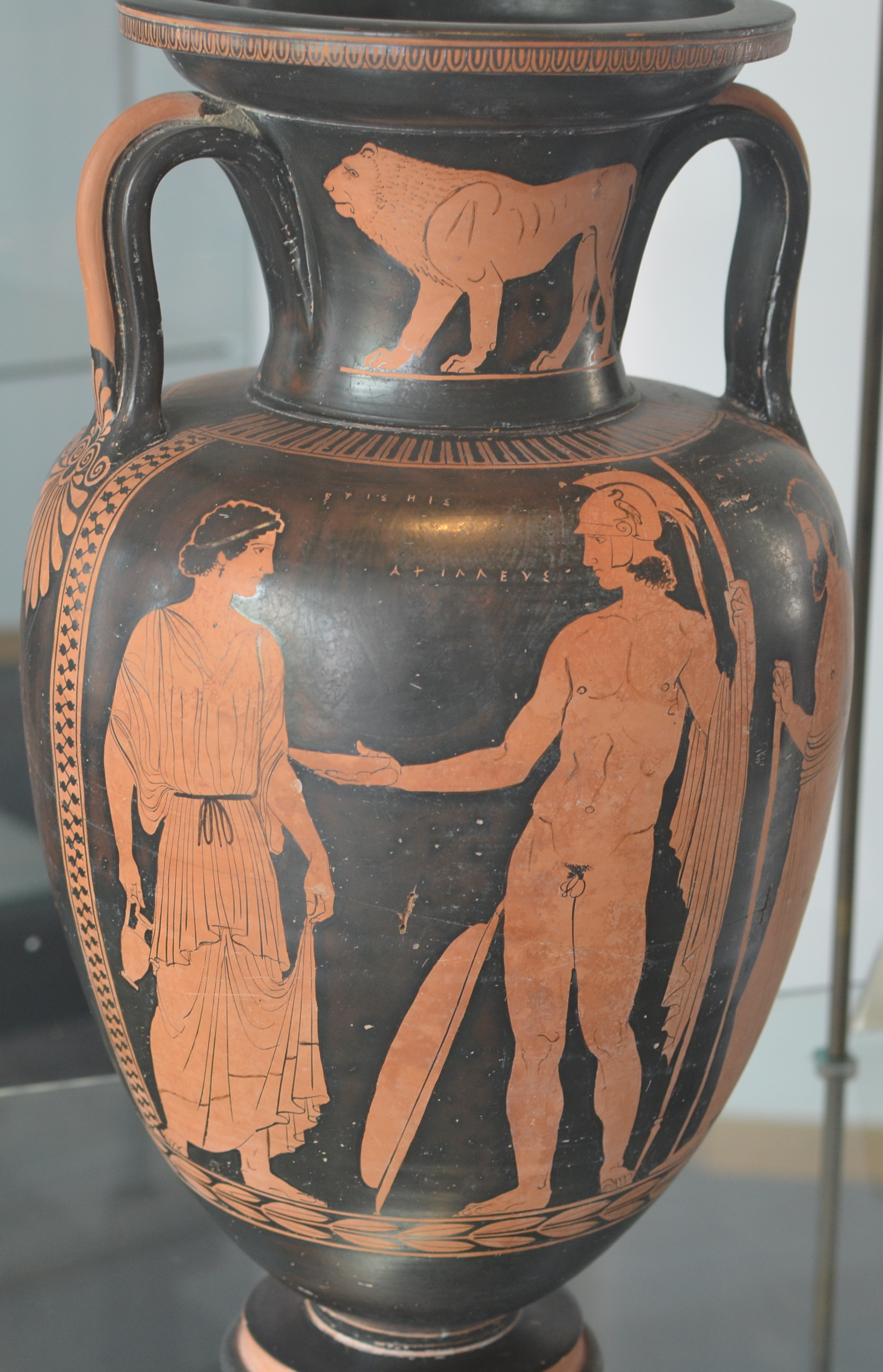 Red-figure amphora attributed to the Painter of the Berlin Dancing Girl. The frontal scene shows Briseis on the left with an oinochoe in her right hand. She is given a phiale by Achilles, who is on the right with a Corinthian helmet, spear and round shield. Agamemnon watches the scene from behind Achilles, with a stick and a laurel wreath. The names of the characters are engraved on the vase. Inventory number 571 in the Museo Provinciale Sigismondo Castromediano in Lecce, Italy.